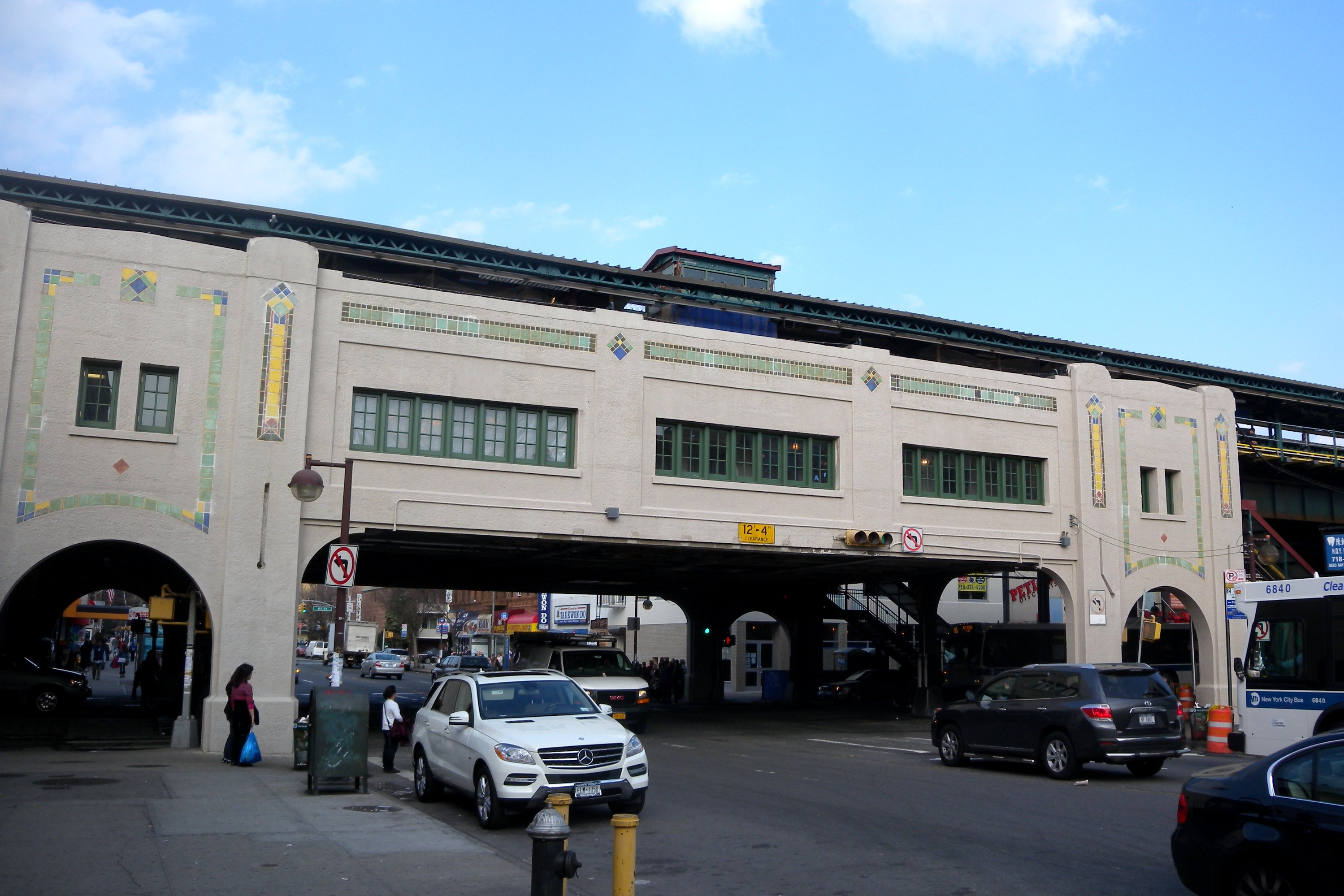 Looking northeast across Bay Parkway at station on 83 St line on a mostly sunny early afternoon.